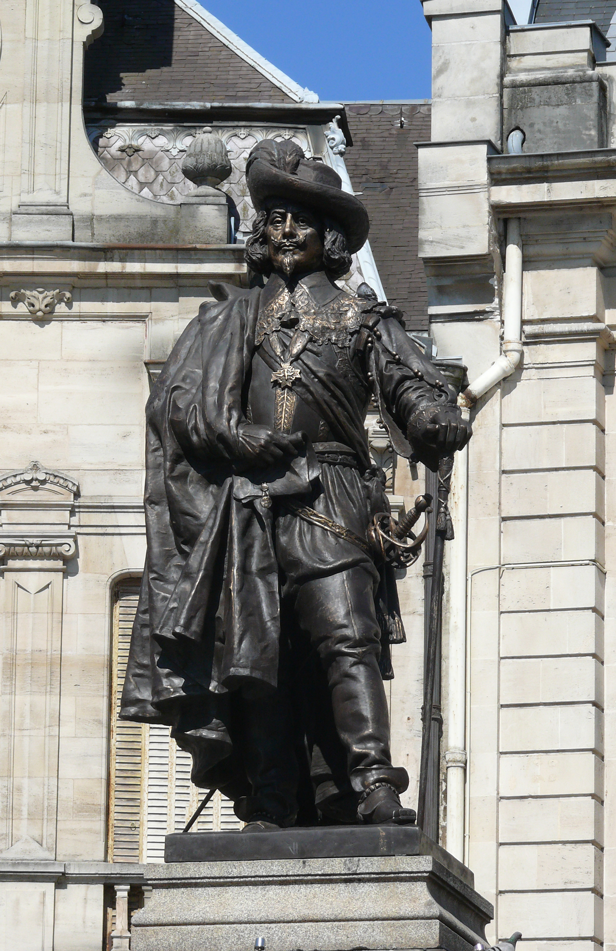 Statue (1899) of Charles I, Duke of Mantua and Montferrat, aka Charles de Gonzague in Charleville-Mézières at the intersection of the avenue Jean-Jaurès and the rue Pierre Bérégovoy.